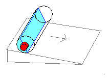 snail bottle ,a simpler version from snail ball